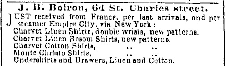 Advertising by 'J.B. Boiron' in New Orleans for Charvet shirts